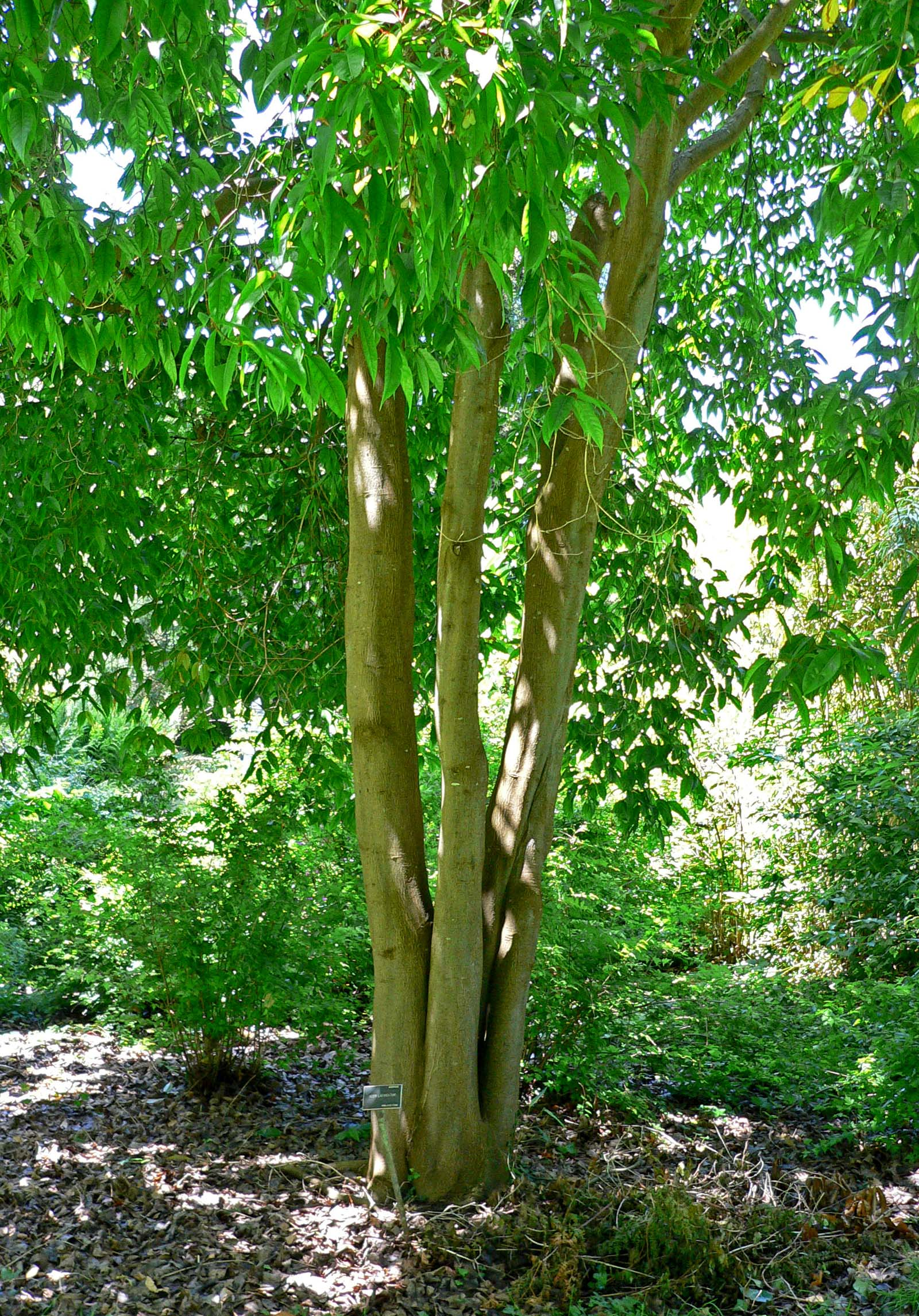 Photo of Acer laevigatum at the San Francisco Botanical Garden